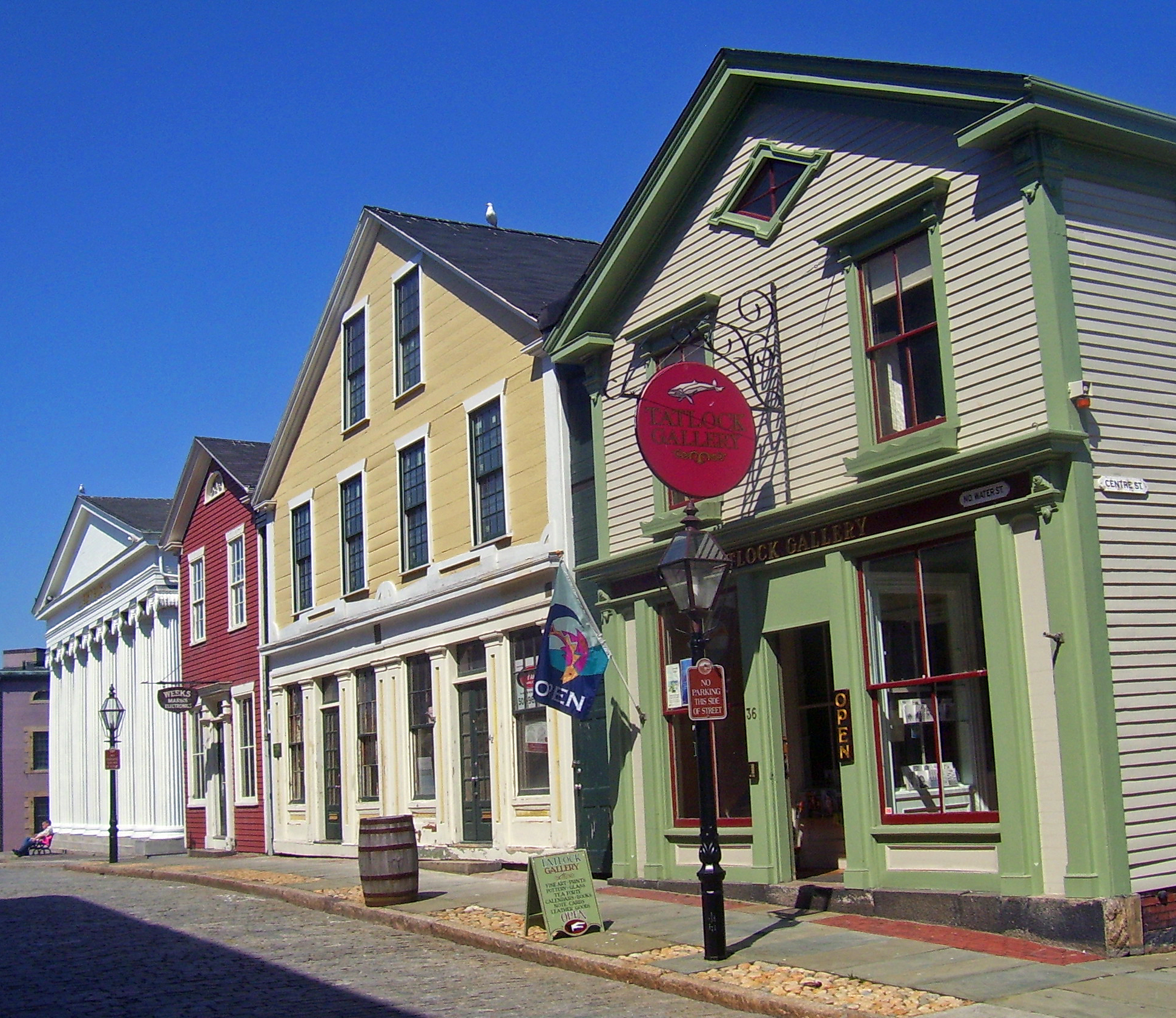 Houses and other buildings along North Water Street, looking north from Centre Street, in New Bedford, MA, part of the New Bedford Historic District, a U.S. National Historic Landmark District